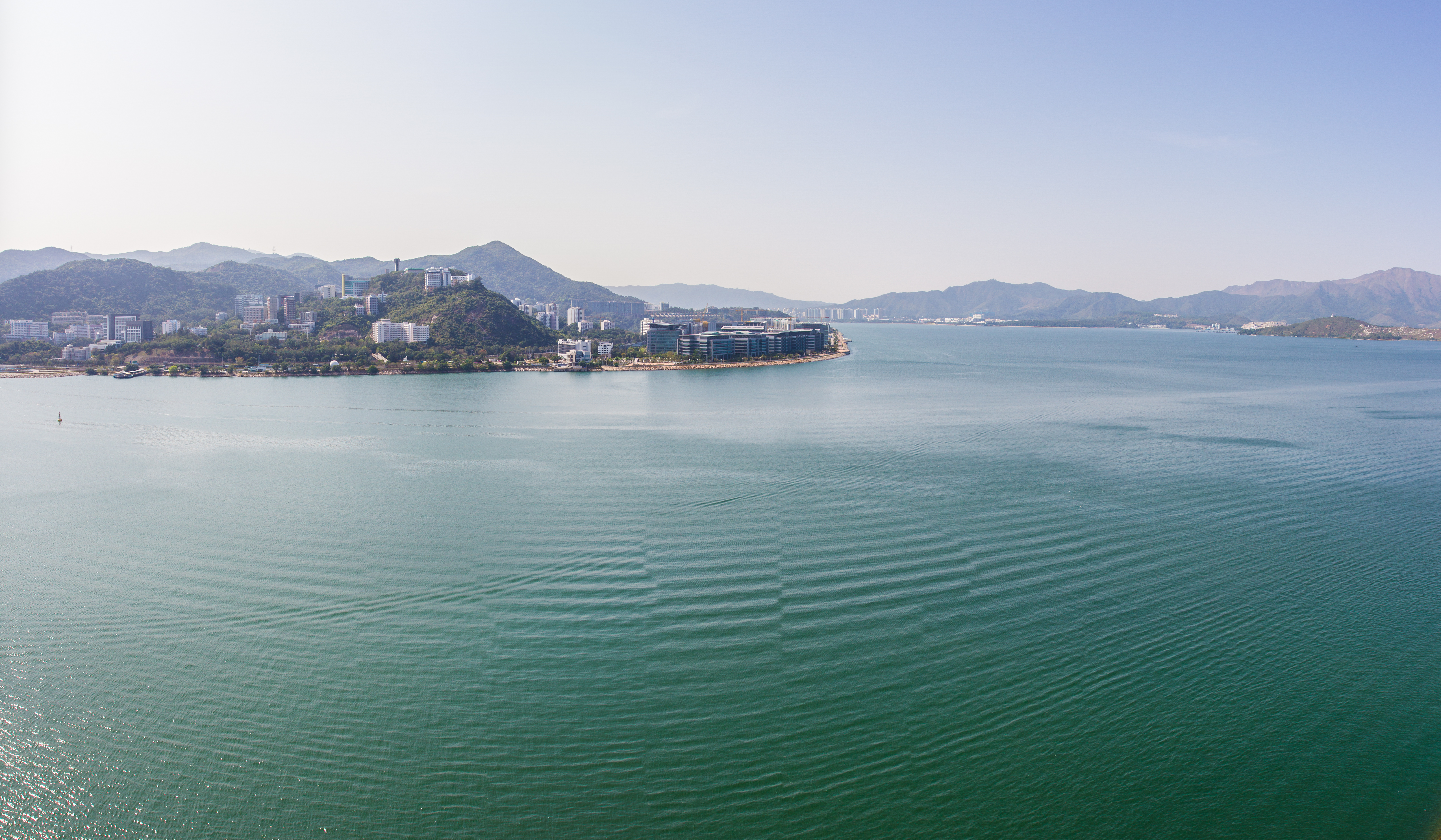 I have always wanted to do large format photography, but the cost for the cameras are somewhat prohibitive for me. But I believe that if I have the will, I can do it. So I have been hacking this by stitching 7D captures together for a view which is beyond which a wide angle lens can capture. This one shows the view from SML Universe HKG, and is the subject for my 寧 Serenity photography series. While the single frame captures can also cover so much, by panning the camera in portrait mode set to 17mm focal length, I am able to cover a large area of the sky as well as the sea. The sea tiling is imperfect, because it moves. This done handheld, so the seams might not be perfect. Also my window does not open as wide as it could, so I actually had to use two different windows to get this. I wish that I can get roof access but unfortunately not. I would consider going to up to the mountain next to me to see if I can get a better view in the future. SML Data + Date: 2013-03-05 14:30:27 GMT+0800 + Dimensions: 5101 x 2975 + Lens: Canon EF 17-40 f/4L USM + Panorama FOV: 120 degree horizontal, 72.5 degree vertical + Panoramic Projection: Cylindrical + GPS: 22°25'10" N 114°13'25" E + Location: SML Universe HKG + Subject: 香港中文大學 + 科學園 + 大埔工業村 + 八仙嶺 + 吐露港 The Chinese University of Hong Kong + Science Park + Tai Po Industrial Estates + Tolo Harbour + Serial: SML.20130305.7D.26344-SML.20130305.7D.26351-SML.Pano.Cylindrical-120x72.5 + Workflow: Hugin 2012, Lightroom 4 + Series: 寧 Serenity, 全景攝影 Panoramic Photography “香港中文大學 + 科學園 + 大埔工業村 + 八仙嶺 + 吐露港 The Chinese University of Hong Kong + Science Park + Tai Po Industrial Estates + Tolo Harbour” / 香港全景之寧 Hong Kong Serenity Panorama / SML.20130305.7D.26344-SML.20130305.7D.26351-SML.Pano.Cylindrical-120x72.5 / #寧 #serenity #SMLSerenity #全景 #Pano #SMLPano #CCBY #SMLPhotography #SMLUniverse #SMLProjects / #中國 #中国 #China #香港 #HongKong #攝影 #摄影 #photography #山水 #landscape #CUHK #SciencePark #TaiPo #PatSinLeng #ToloHarbour